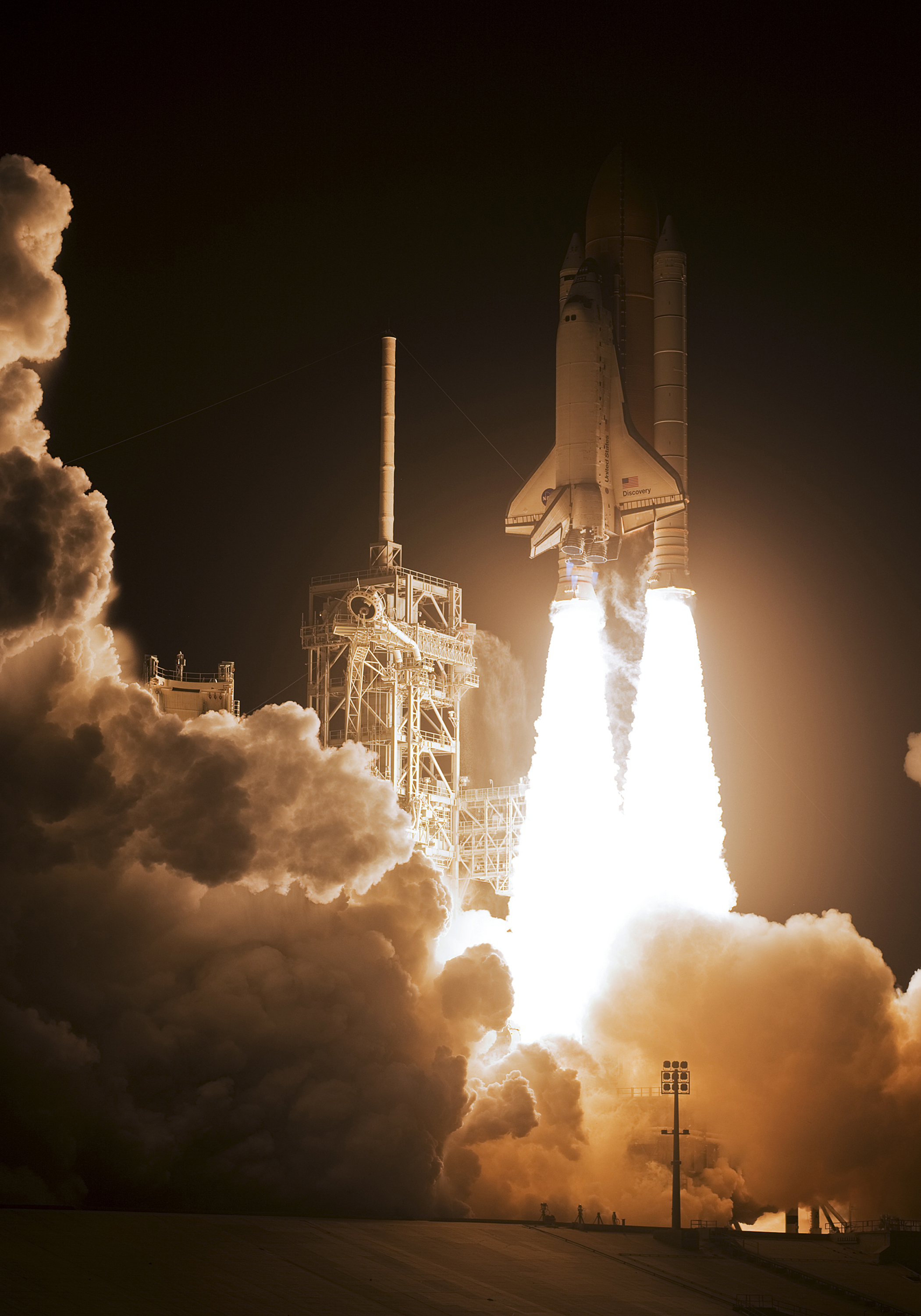 CAPE CANAVERAL, Fla. – Rising on twin columns of fire from Launch Pad 39A at NASA's Kennedy Space Center in Florida, space shuttle Discovery hurtles toward space on the STS-128 mission. Liftoff from Launch Pad 39A was on time at 11:59 p.m. EDT. The first launch attempt on Aug. 24 was postponed due to unfavorable weather conditions. The second attempt on Aug. 25 also was postponed due to an issue with a valve in space shuttle Discovery's main propulsion system. The STS-128 mission is the 30th International Space Station assembly flight and the 128th space shuttle flight. The 13-day mission will deliver more than 7 tons of supplies, science racks and equipment, as well as additional environmental hardware to sustain six crew members on the International Space Station. The equipment includes a freezer to store research samples, a new sleeping compartment and the COLBERT treadmill.